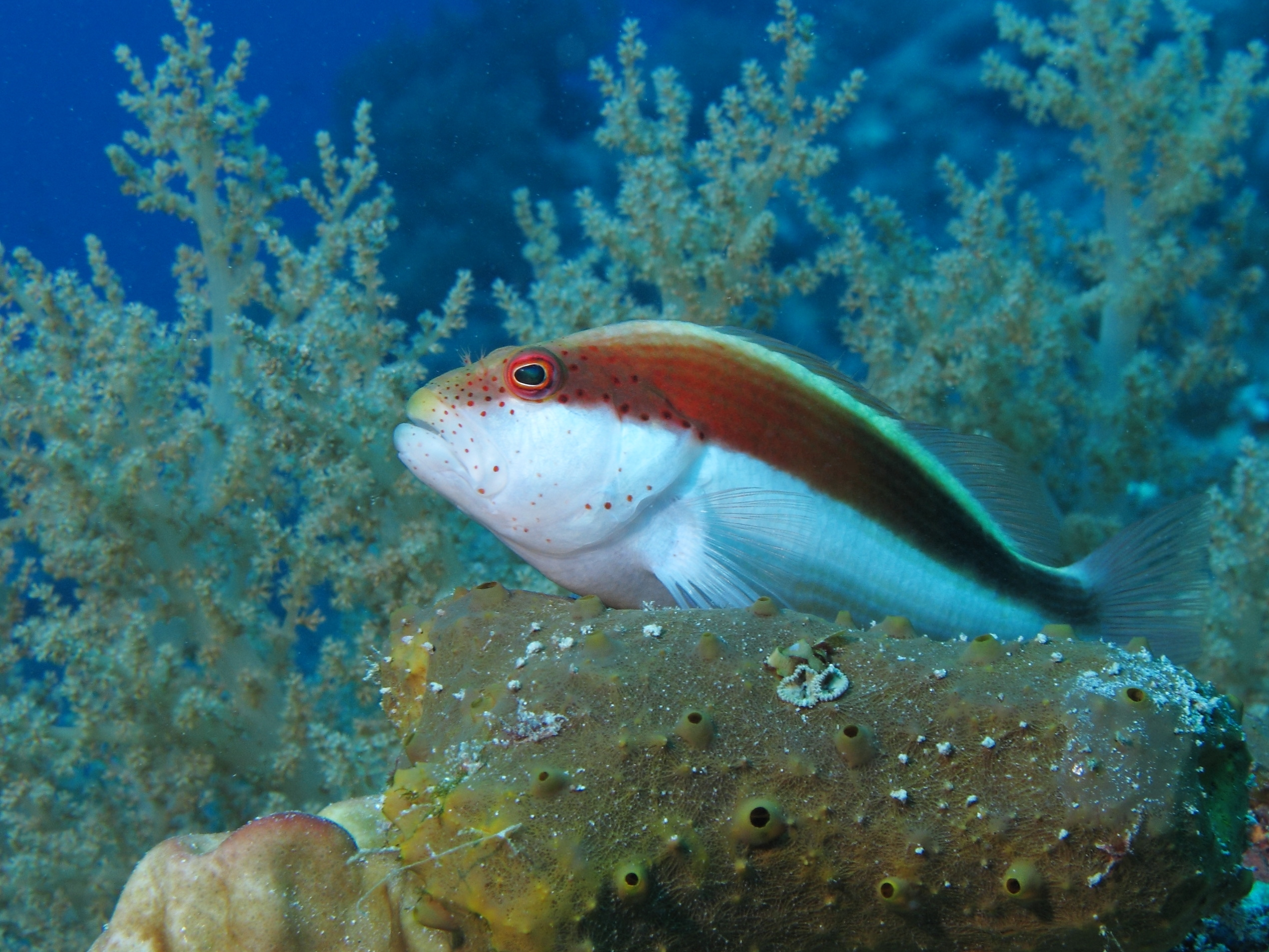 Blackside hawkfish (Paracirrhites forsteri) at Big Gota (Red Sea, Egypt)